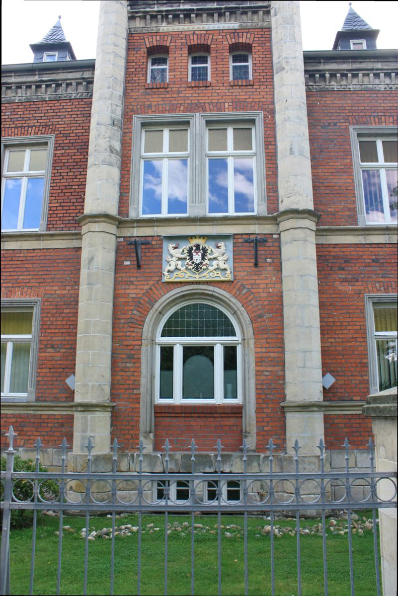 Building in Quedlinburg / Germany